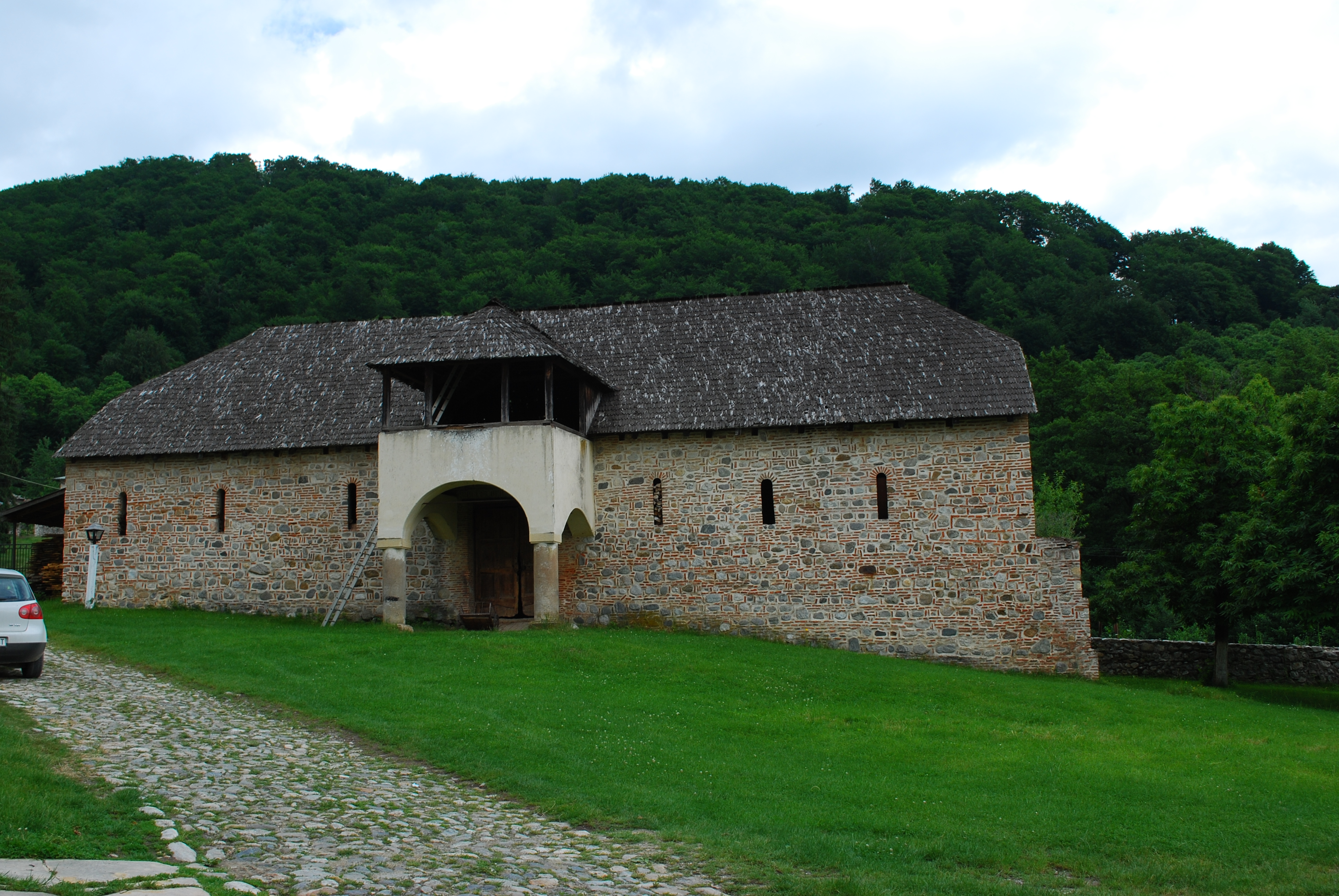 Building around the Horezu monastery, Vâlcea County, RomaniaRomână: Clădiri anexe de lângă mănăstirea Horezu, judeţul Vâlcea, România 09